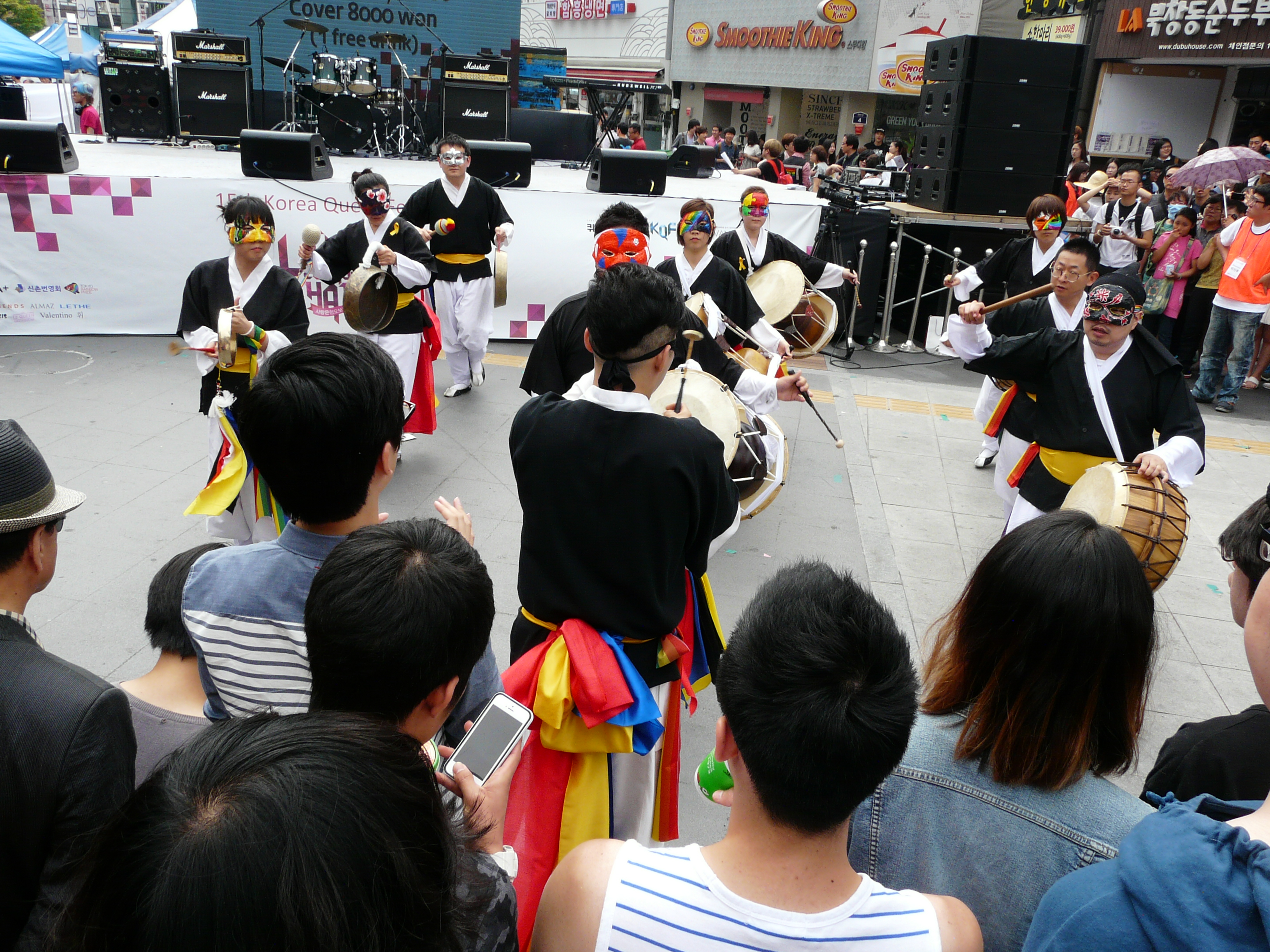 Korea Queer Culture Festival 2014, before the parade. Numerous conservative, religious anti-LGBT activists were disrupting the events.